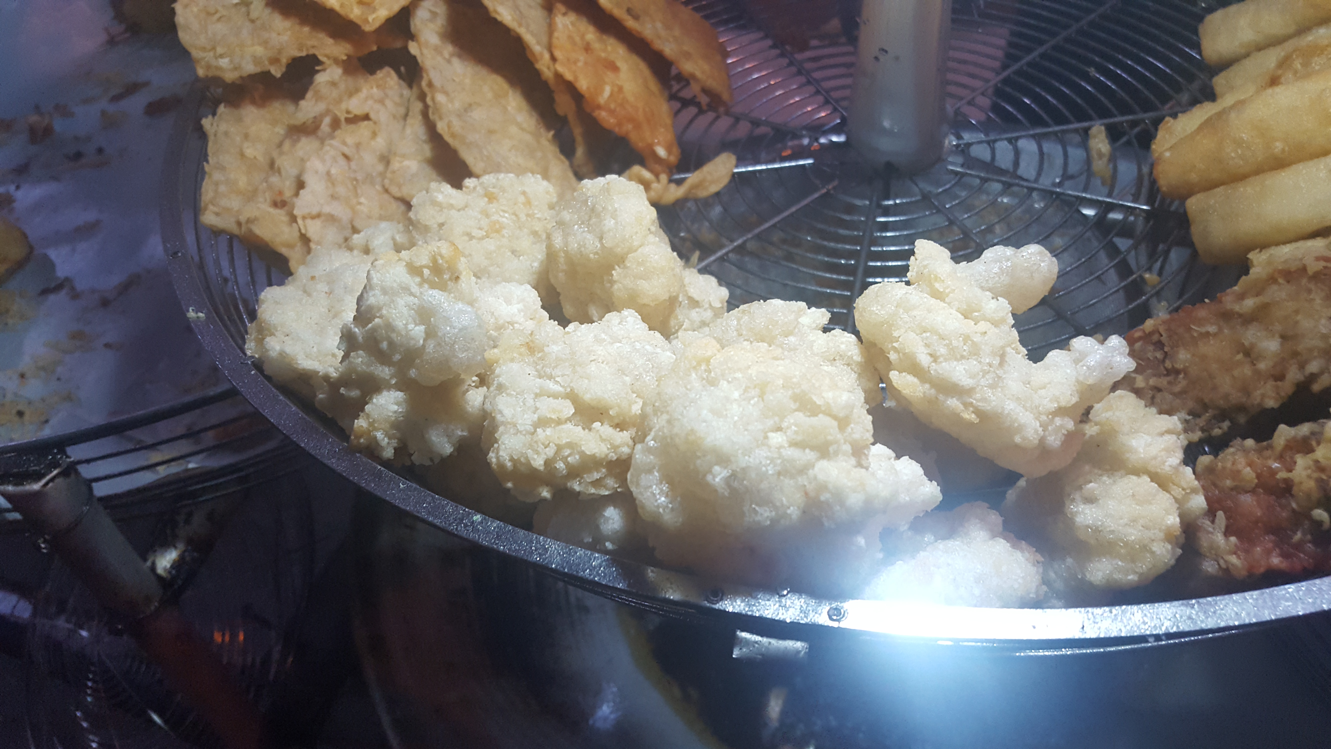 fried cireng